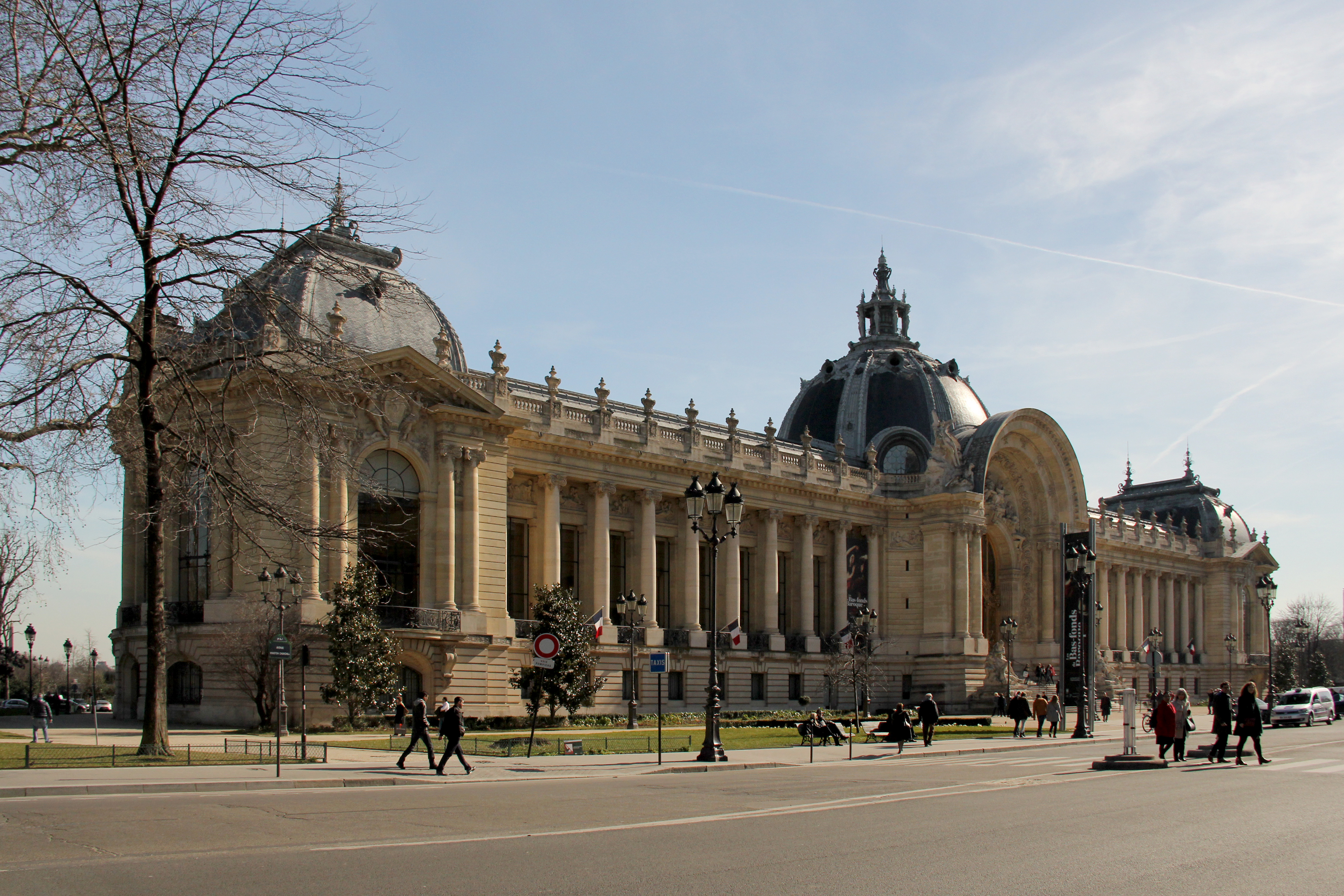 Facade of Petit Palais, Paris.